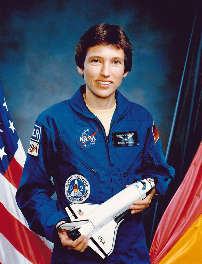 Official portrait of STS-55 SL-D2 backup Payload Specialist Renate Brümmer German backup Payload Specialist Renate Brümmer poses for her official portrait. Brümmer has been assigned as an alternate (backup) crewmember to the STS-55 Columbia, Orbiter Vehicle (OV) 102, Spacelab Deutsche 2 (SL-D2) mission. This is the second dedicated German Spacelab flight. Brümmer represents the German Aerospace Research Establishment (DLR).